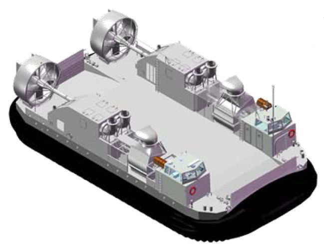 Concept image of the Ship-to-Shore Connector.